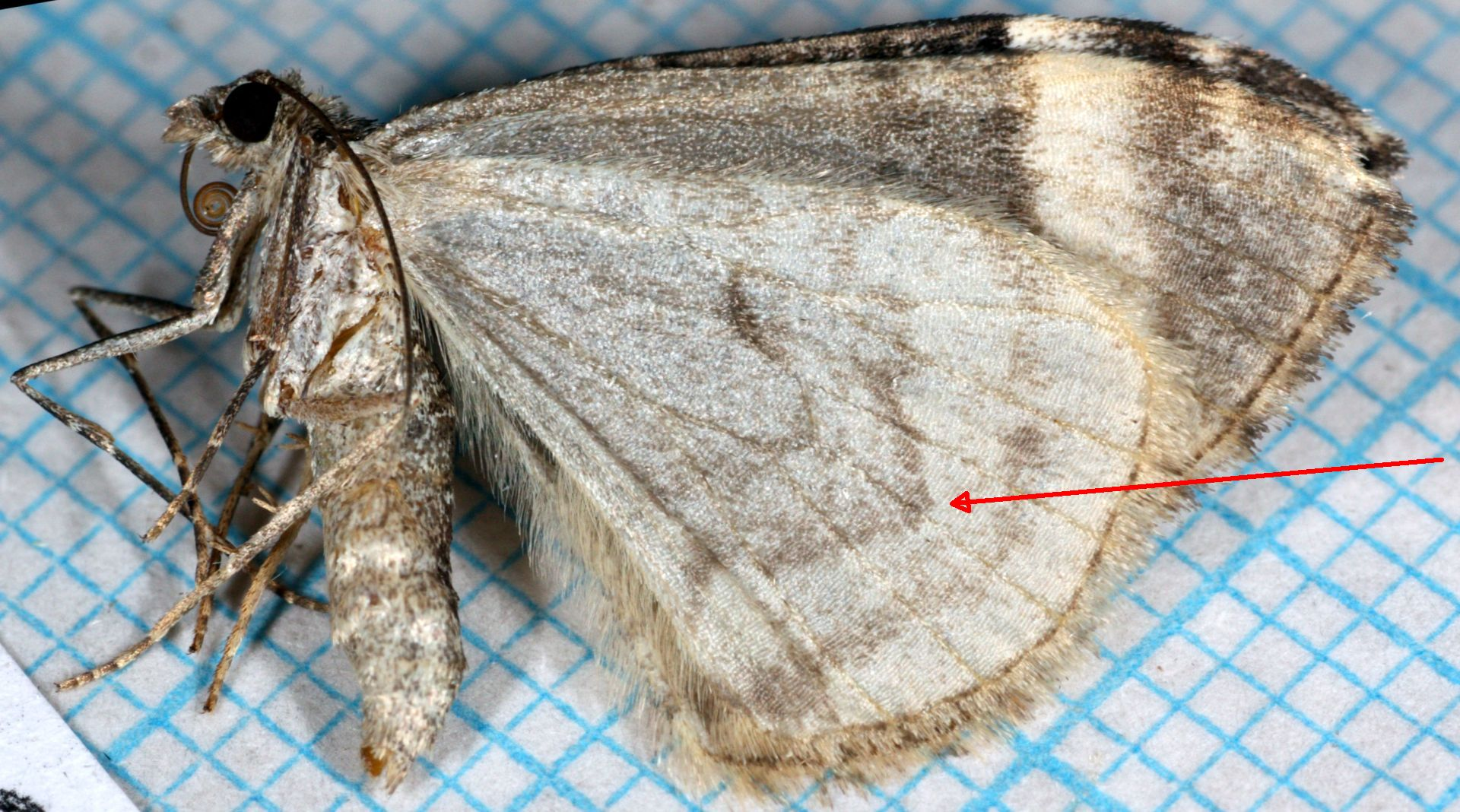 Dark Marbled Carpet Dysstroma citrata underwing with typical angle.